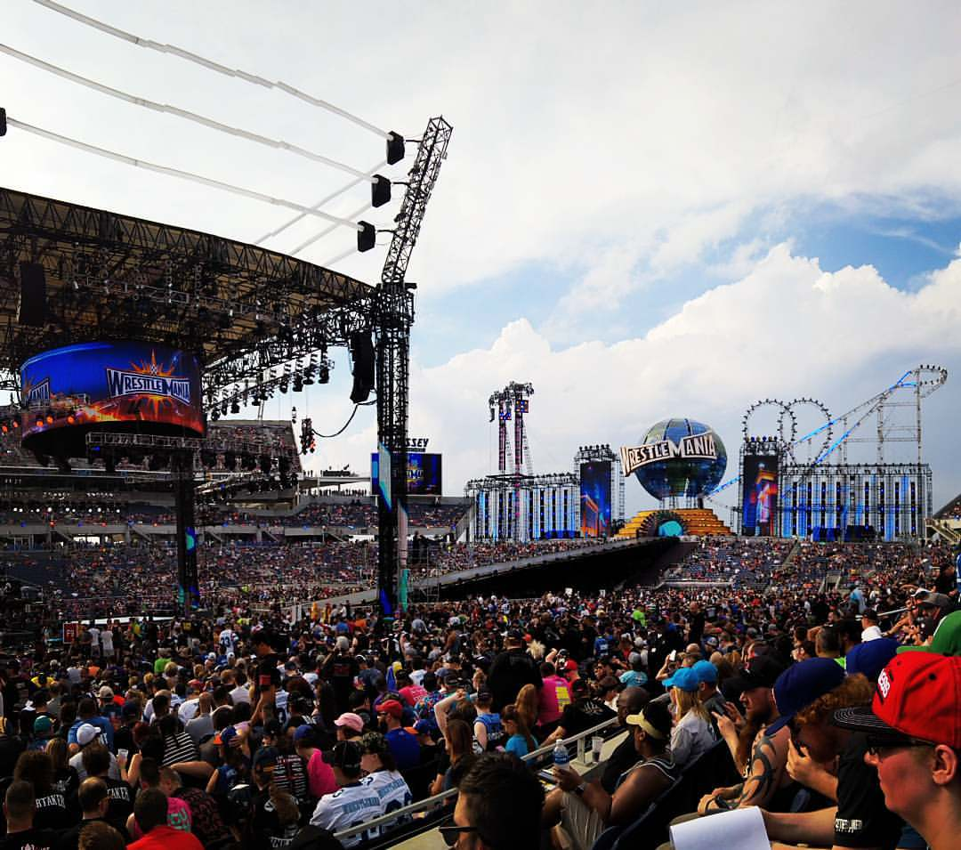 Live for WrestleMania 33, and the incredible set up for it! Just Amazing! #WrestleMania #WrestleMania33 #Florida #Orlando